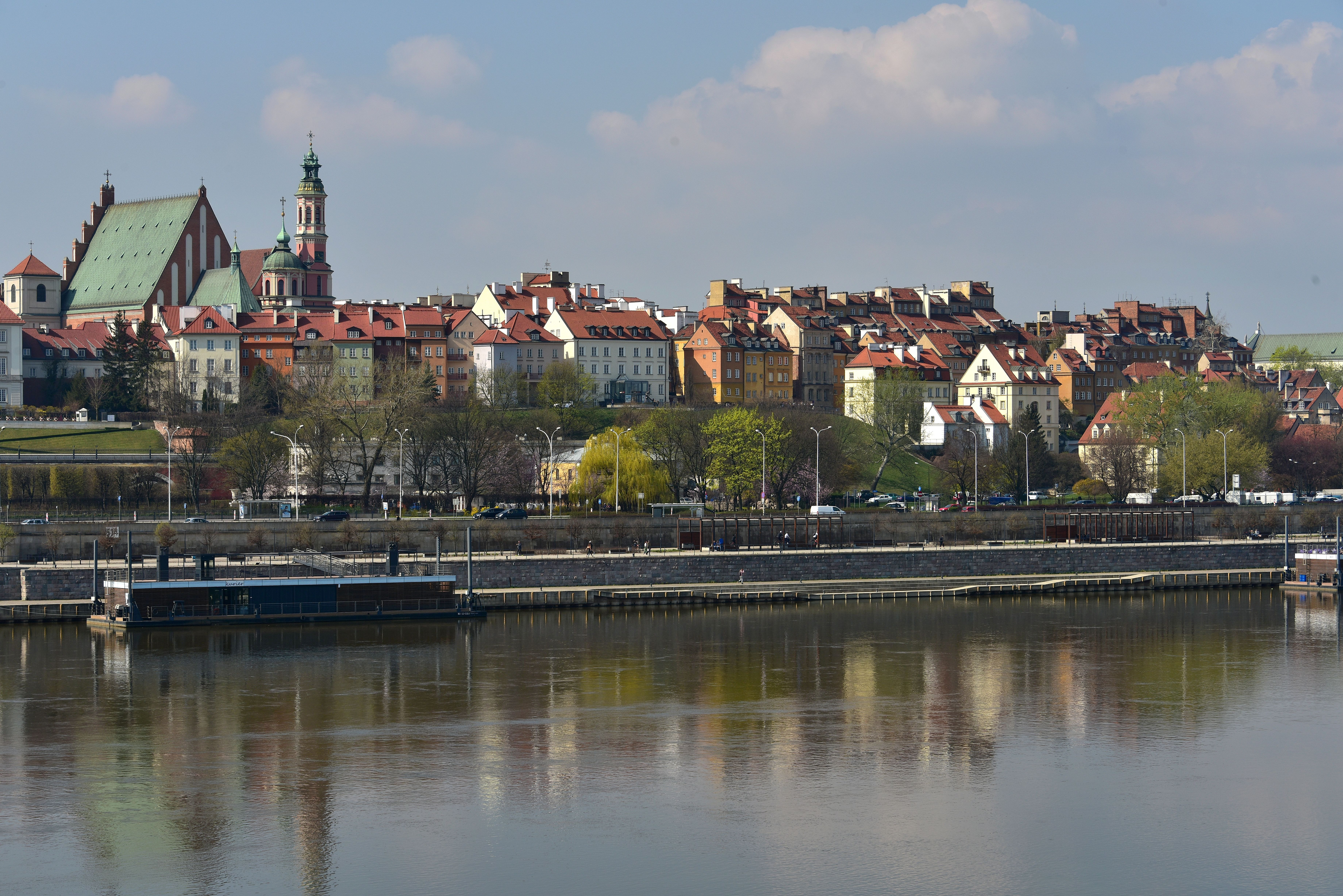 Old Town in Warsaw viewed from Vistula